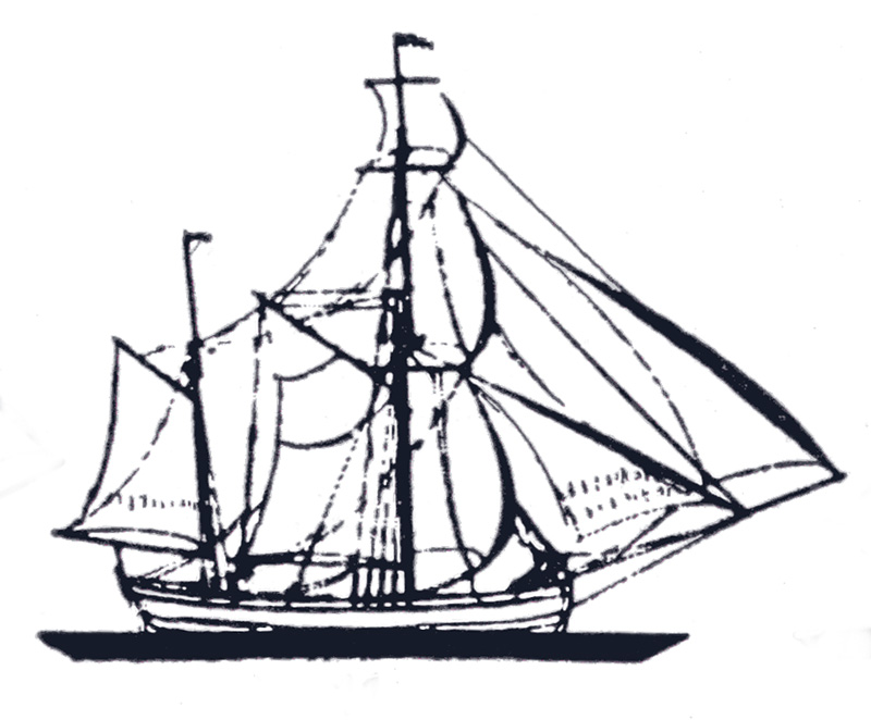 Hukert, from 1800-c